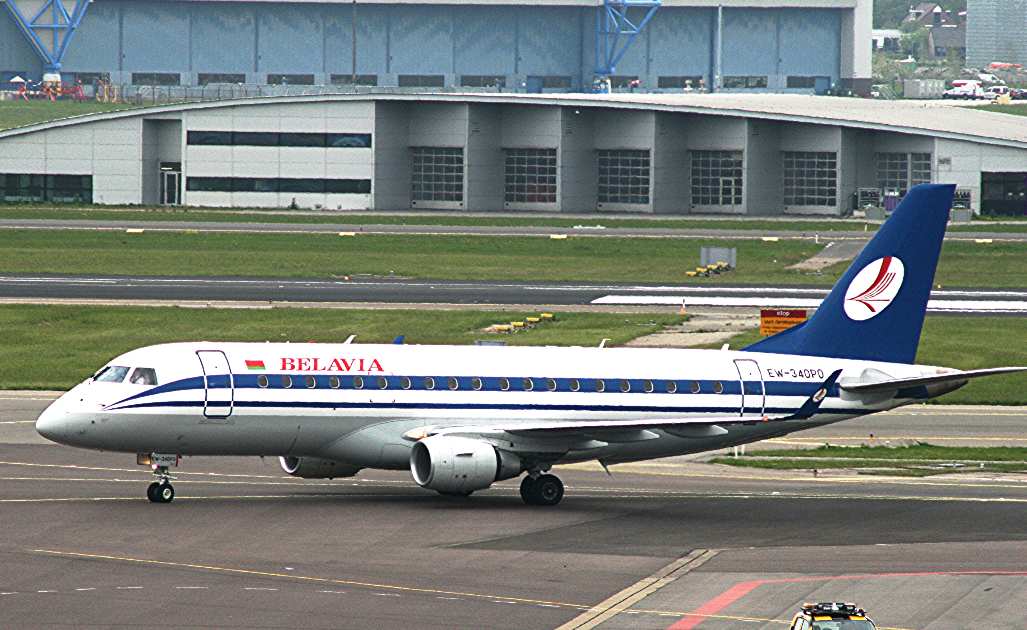 On Monday 18th May I visited Amsterdam, on an Air Yorkshire trip flying from LBA with jet2